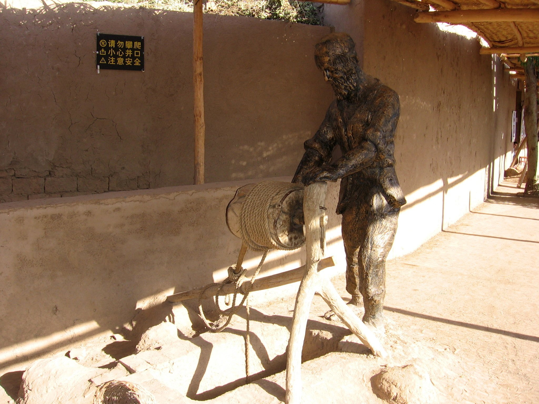 Karez: is the name commontly used in Central Asia for the irrigation system also know as Qanat. Photo from a museum dedicated to karez at Turfan, Autonomous Region of Xinjiang, China.